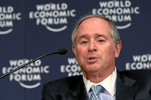 DAVOS/SWITZERLAND, 24JAN08 - Stephen A. Schwarzman, Chairman and Chief Executive Officer, The Blackstone Group, USA, captured during the session 'Myths and Realities of Sovereign Wealth Funds' at the Annual Meeting 2008 of the World Economic Forum in Davos, Switzerland, January 24, 2008.